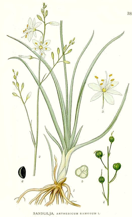 Anthericum ramosum L. Original Description Sandlilja, Anthericum ramosum L.